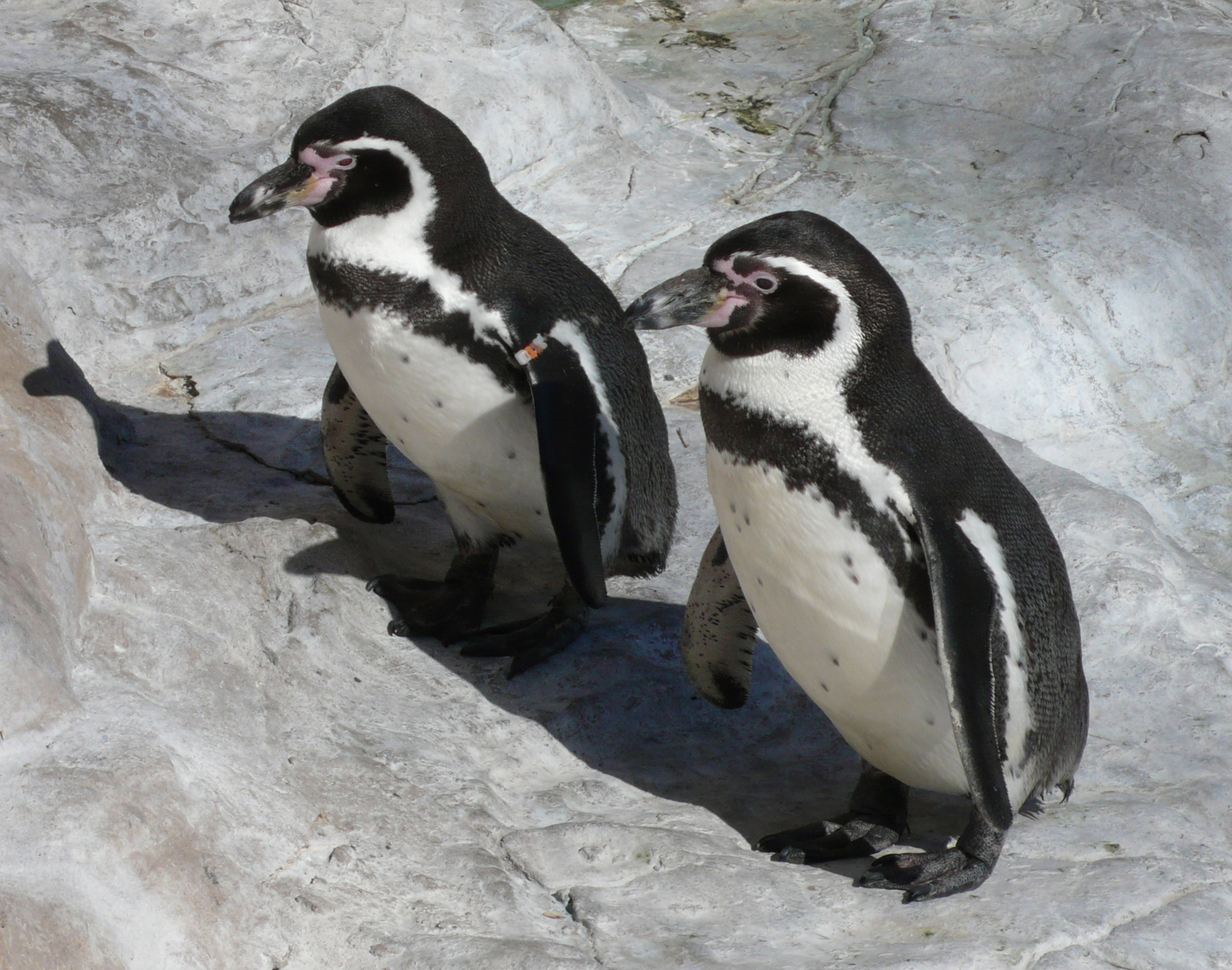 Humboldt penguins (Spheniscus humboldti)